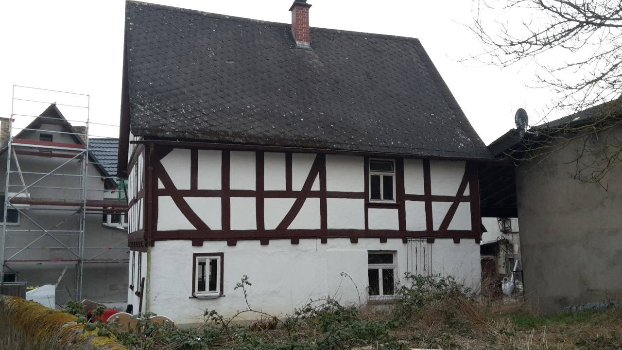 Burgsolms, Wintersburgstraße 3